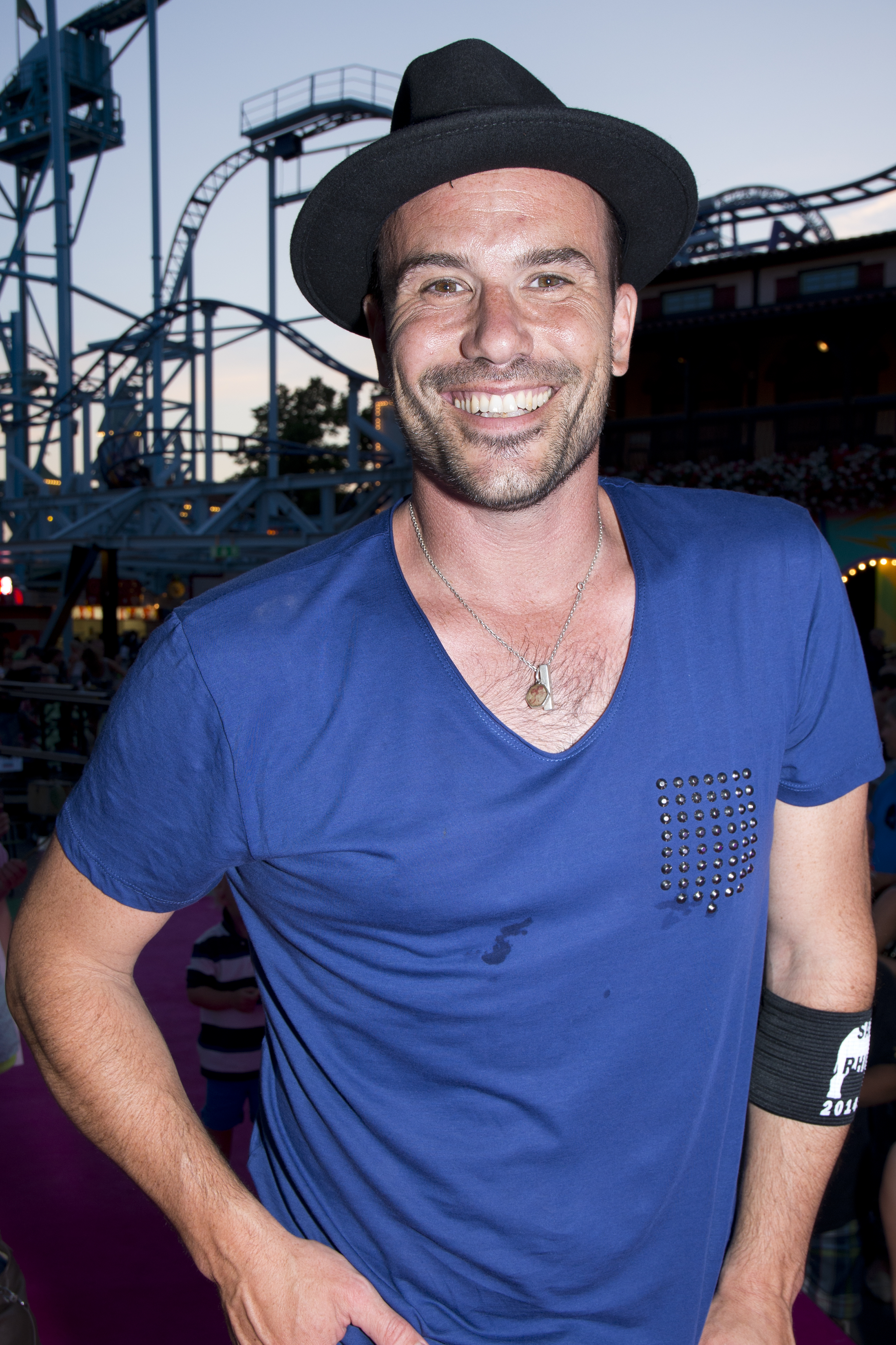 Martin Stenmarck visit sommarkrysset in Stockholm at Gröna Lund